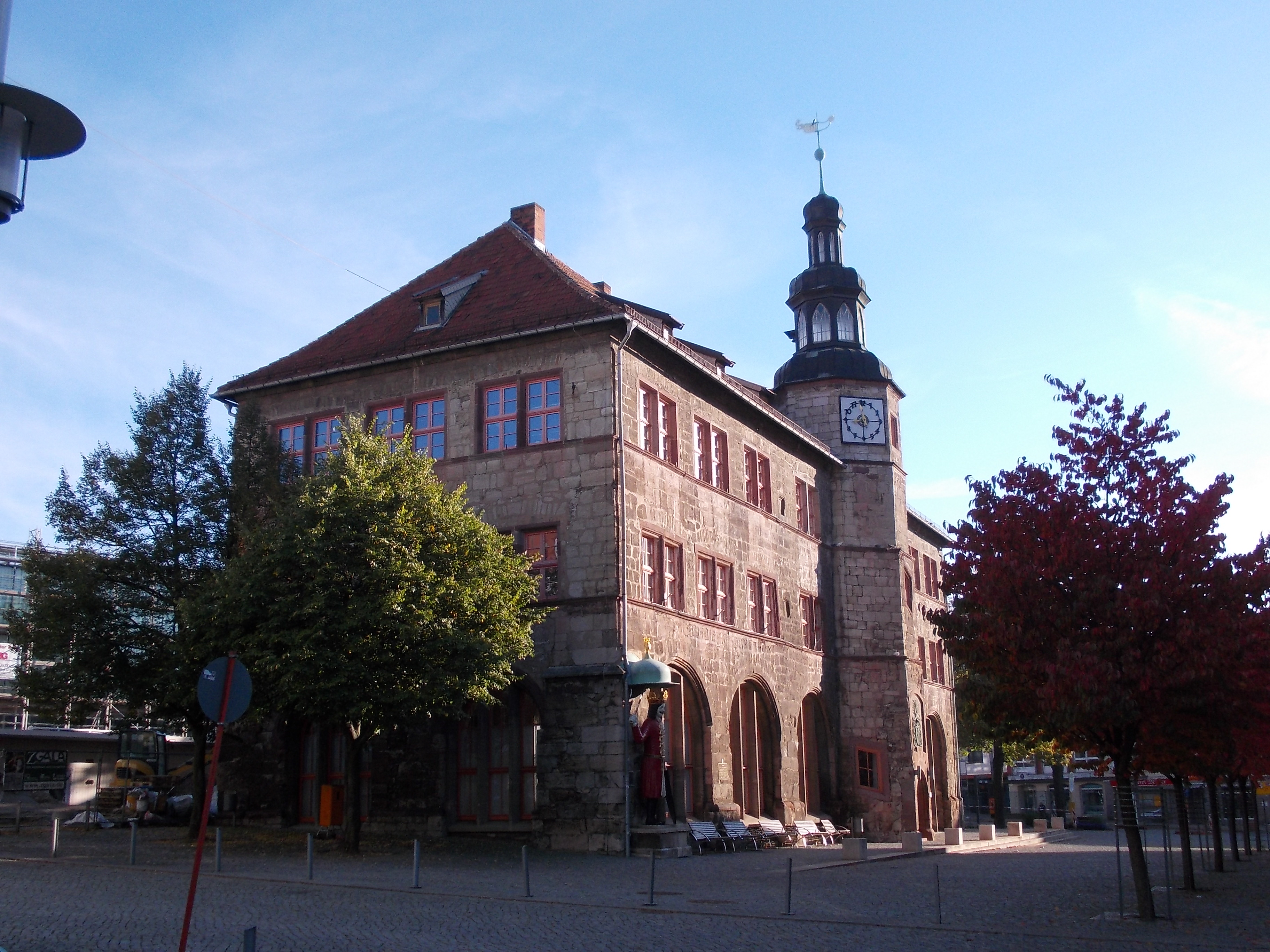 Town hall in Nordhausen (Thuringia)